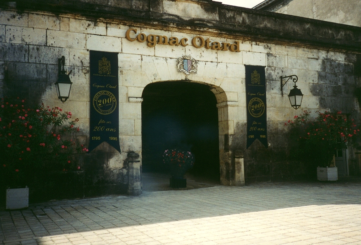 Entrance of the cognac maker Otard at the Château de Cognac in Cognac.